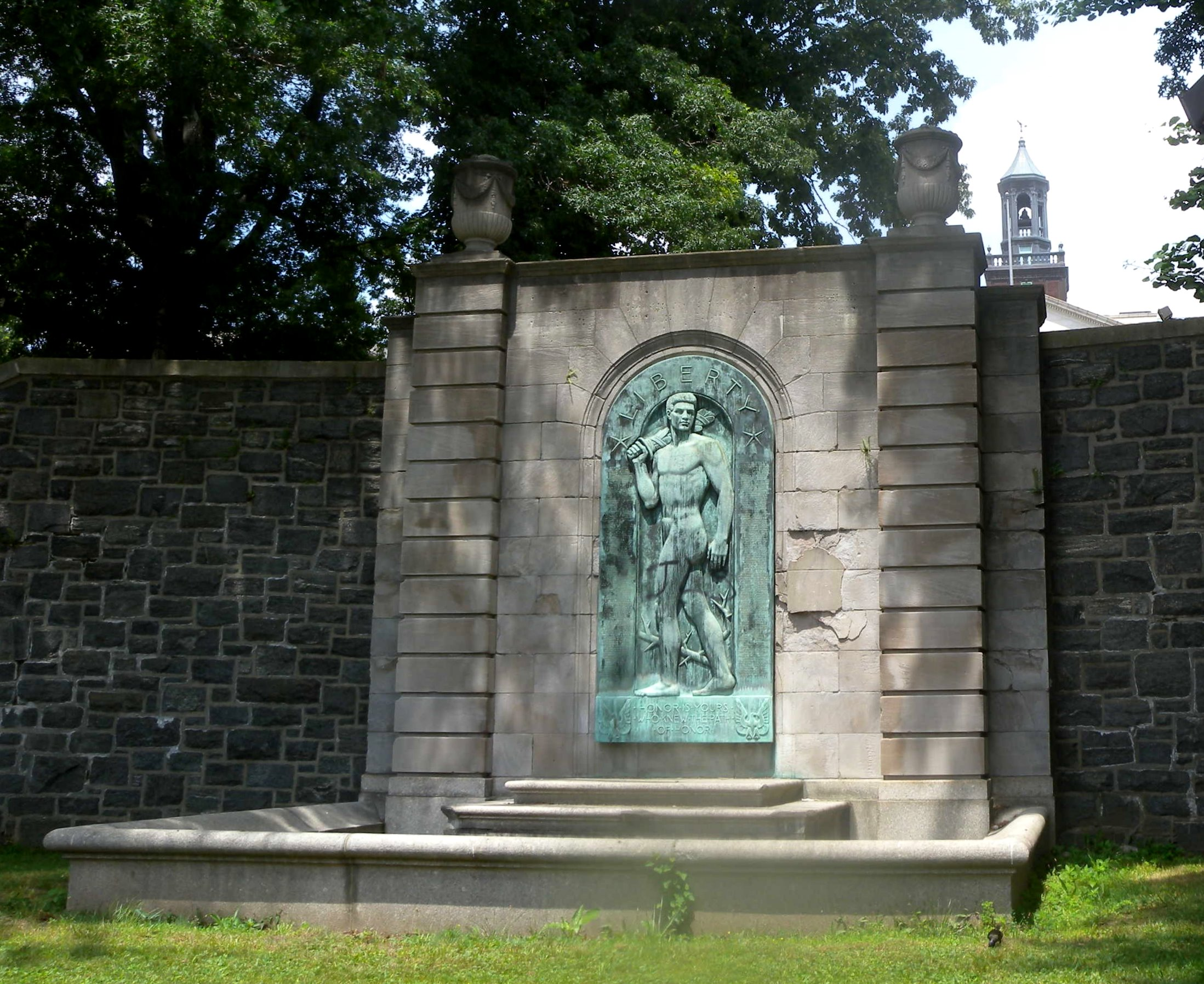 Jamaica High School WWI memorial, Queens, New York City. Looking northwest from Gothic Drive on a mostly sunny midday.